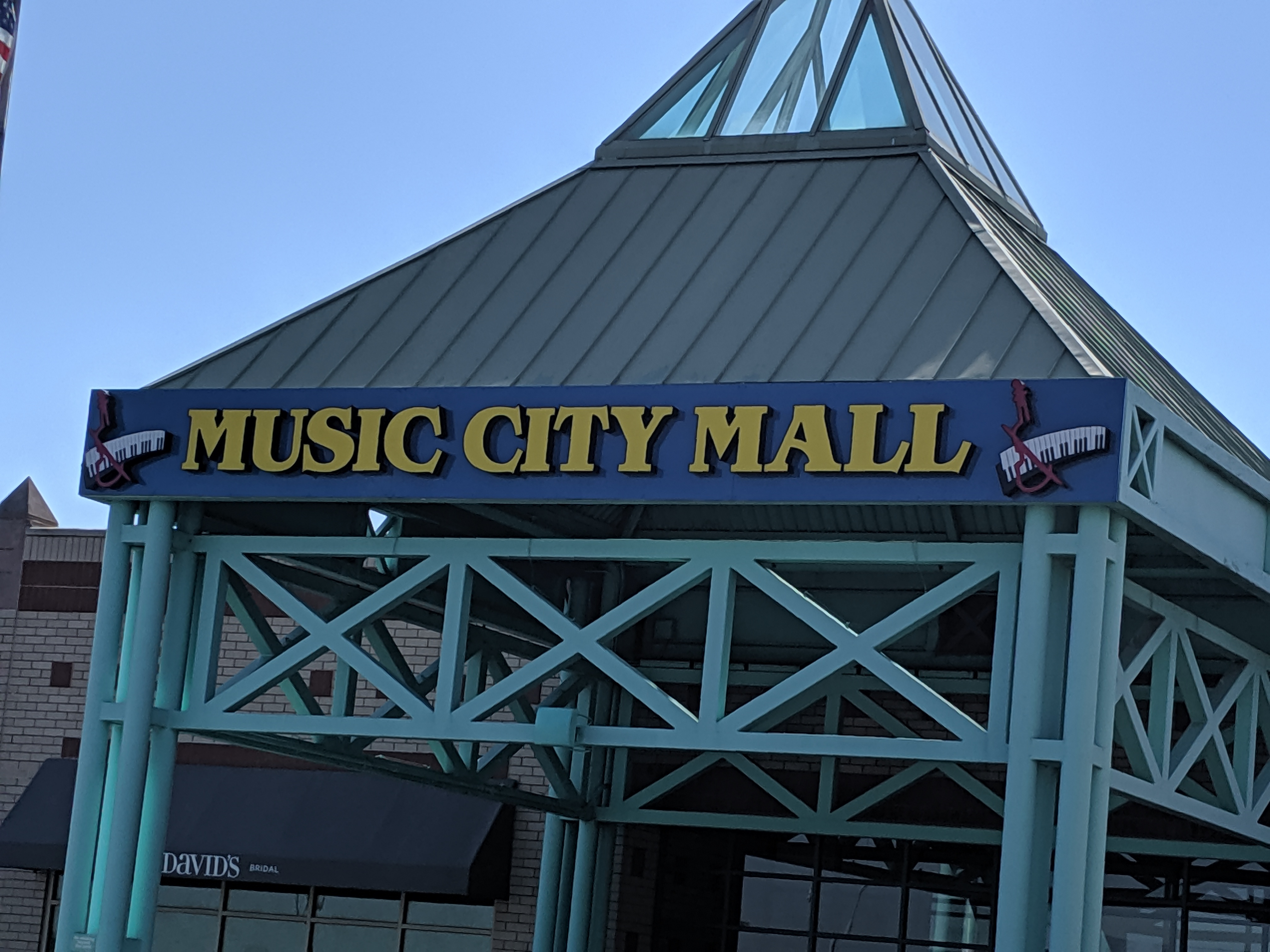 North Entrance of the former vista ridge mall with it's most recent logo